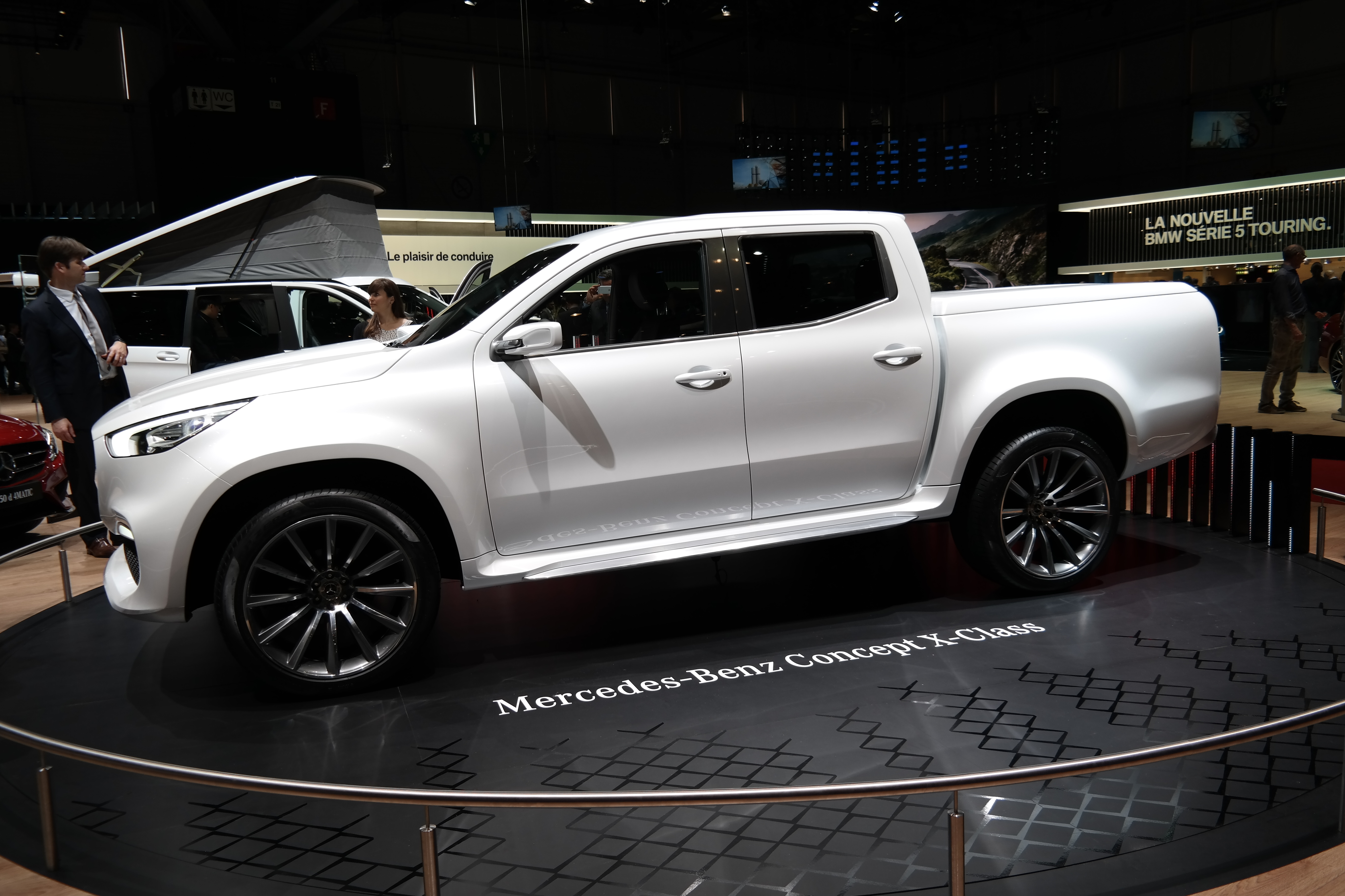 Geneva Motor Show 2017 (photo taken on the first press day)